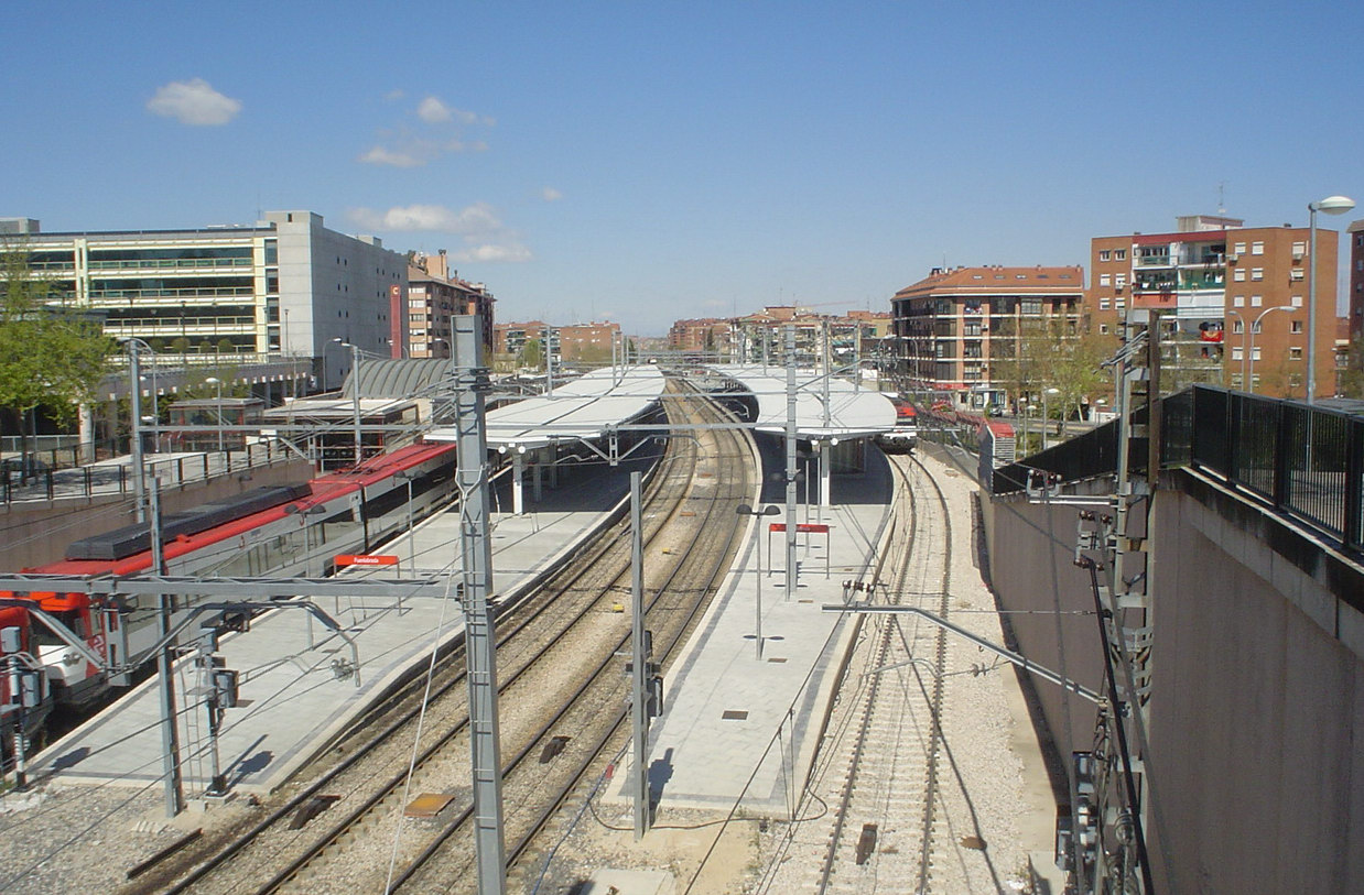 Fuenlabrada Central Railway (and Metro) Station; Fuenlabrada, Madrid, Spain Own picture